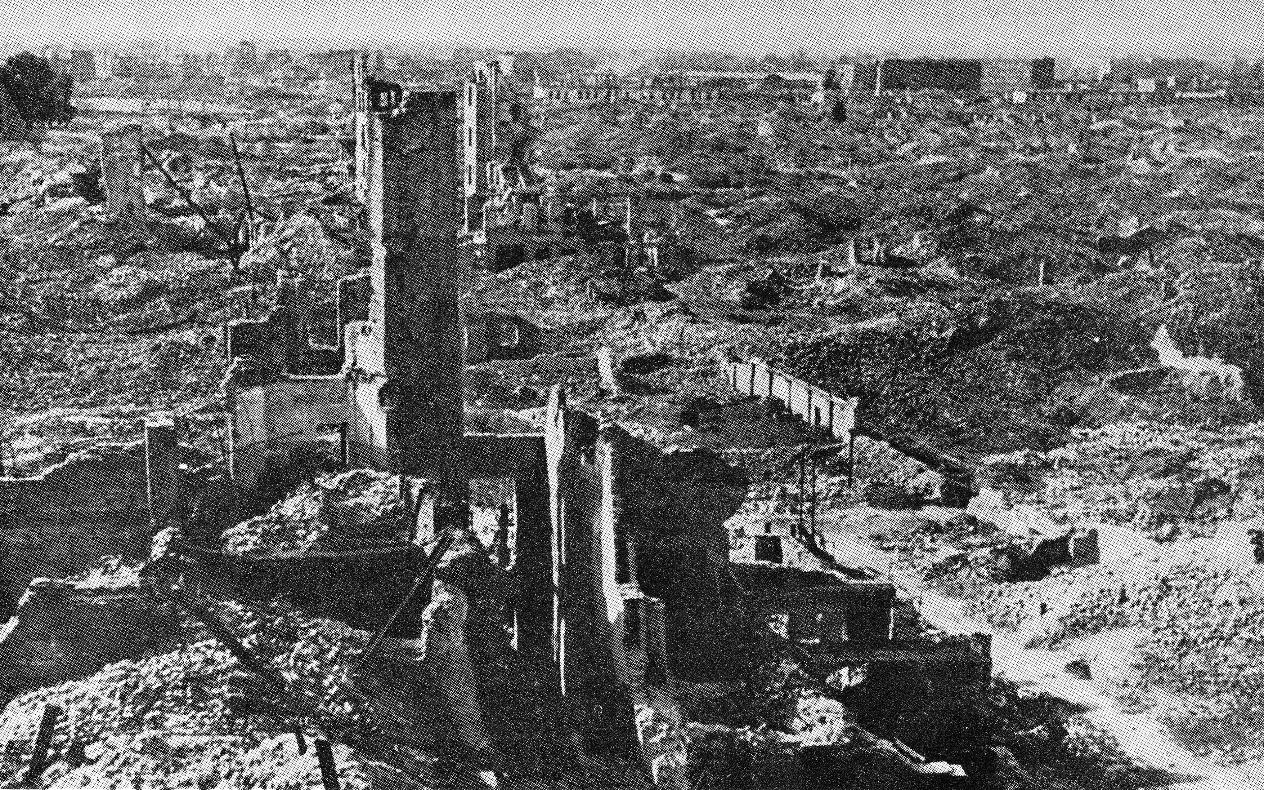 Warsaw Ghetto after WWII